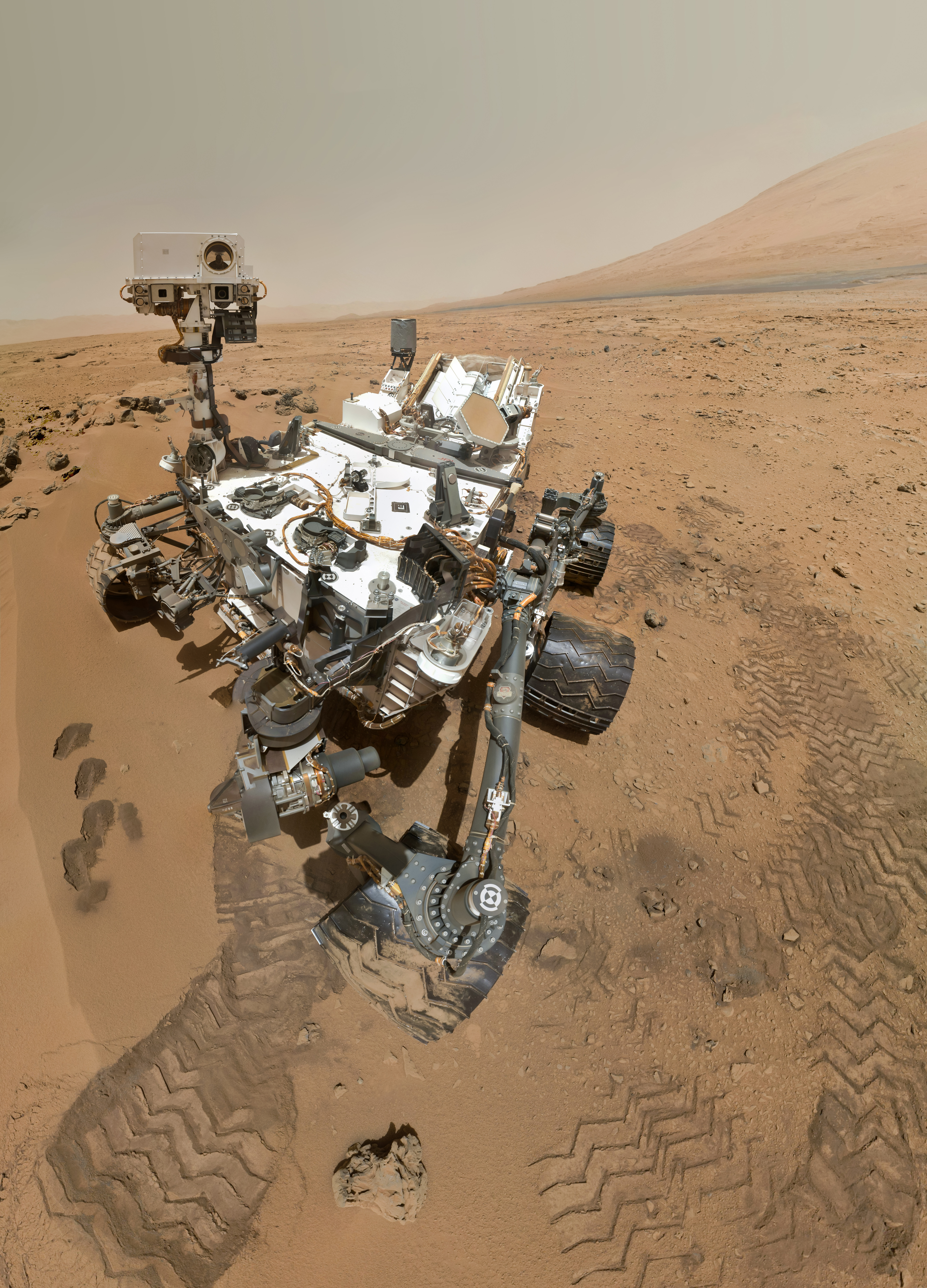 On Sol 84 (Oct. 31, 2012), NASA's Curiosity rover used the Mars Hand Lens Imager (MAHLI) to capture this set of 55 high-resolution images, which were stitched together to create this full-color self-portrait. The mosaic shows the rover at "Rocknest," the spot in Gale Crater where the mission's first scoop sampling took place. Four scoop scars can be seen in the regolith in front of the rover. The base of Gale Crater's 3-mile-high (5-kilometer) sedimentary mountain, Mount Sharp, rises on the right side of the frame. Mountains in the background to the left are the northern wall of Gale Crater. The Martian landscape appears inverted within the round, reflective ChemCam instrument at the top of the rover's mast. Self-portraits like this one document the state of the rover and allow mission engineers to track changes over time, such as dust accumulation and wheel wear. Due to its location on the end of the robotic arm, only MAHLI (among the rover's 17 cameras) is able to image some parts of the craft, including the port-side wheels. This high-resolution mosaic is a more detailed version of the low-resolution version created with thumbnail images, at PIA16238. JPL manages the Mars Science Laboratory/Curiosity for NASA's Science Mission Directorate in Washington. The rover was designed, developed and assembled at JPL, a division of the California Institute of Technology in Pasadena. This file is modified in contrast, white balance, perspective distortion and some minor other settings compared to the official version released by NASA. Versions as released by NASA can be found below.